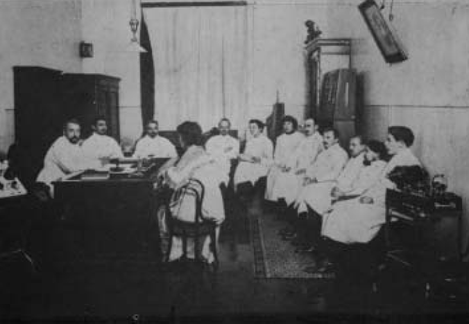 L.O. Darkshevich with the collegues during the discussion of the patient.